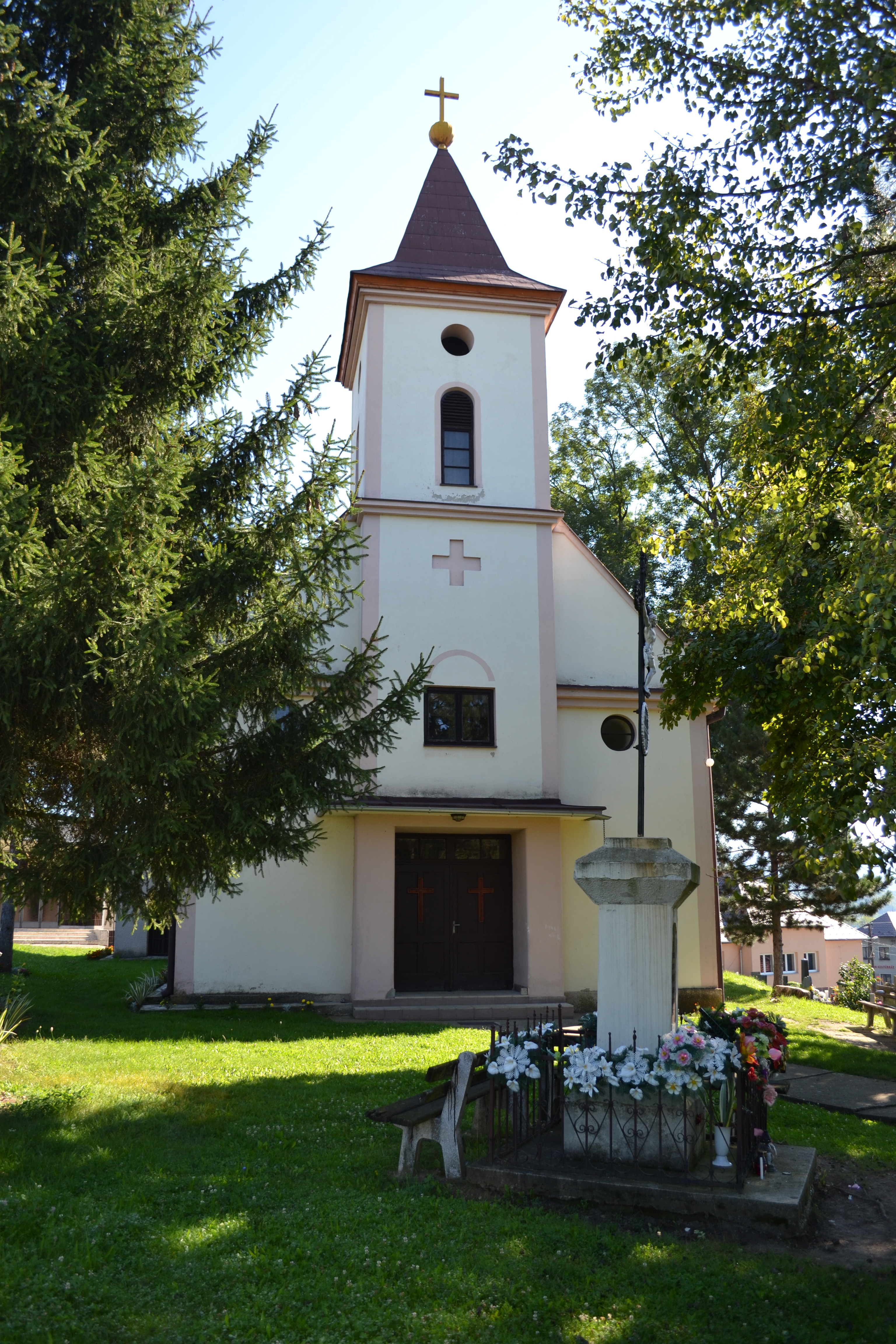 Roman Catholic Baroque Church of St. Elizabeth